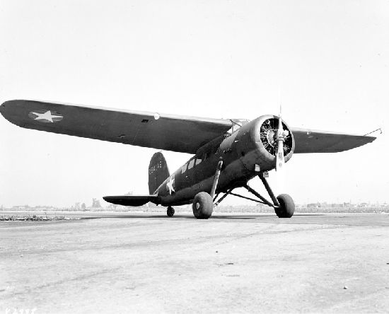 Lockheed UC-101 "Vega 5C".